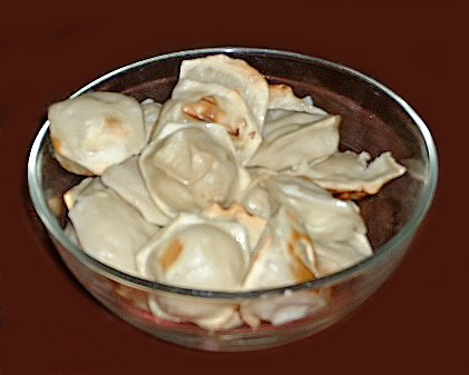 Home-made Kreplach, fried before serving. Photographed by myself, Dec. 2005 at my inlaws. Camera: Fuji FinePix 2650